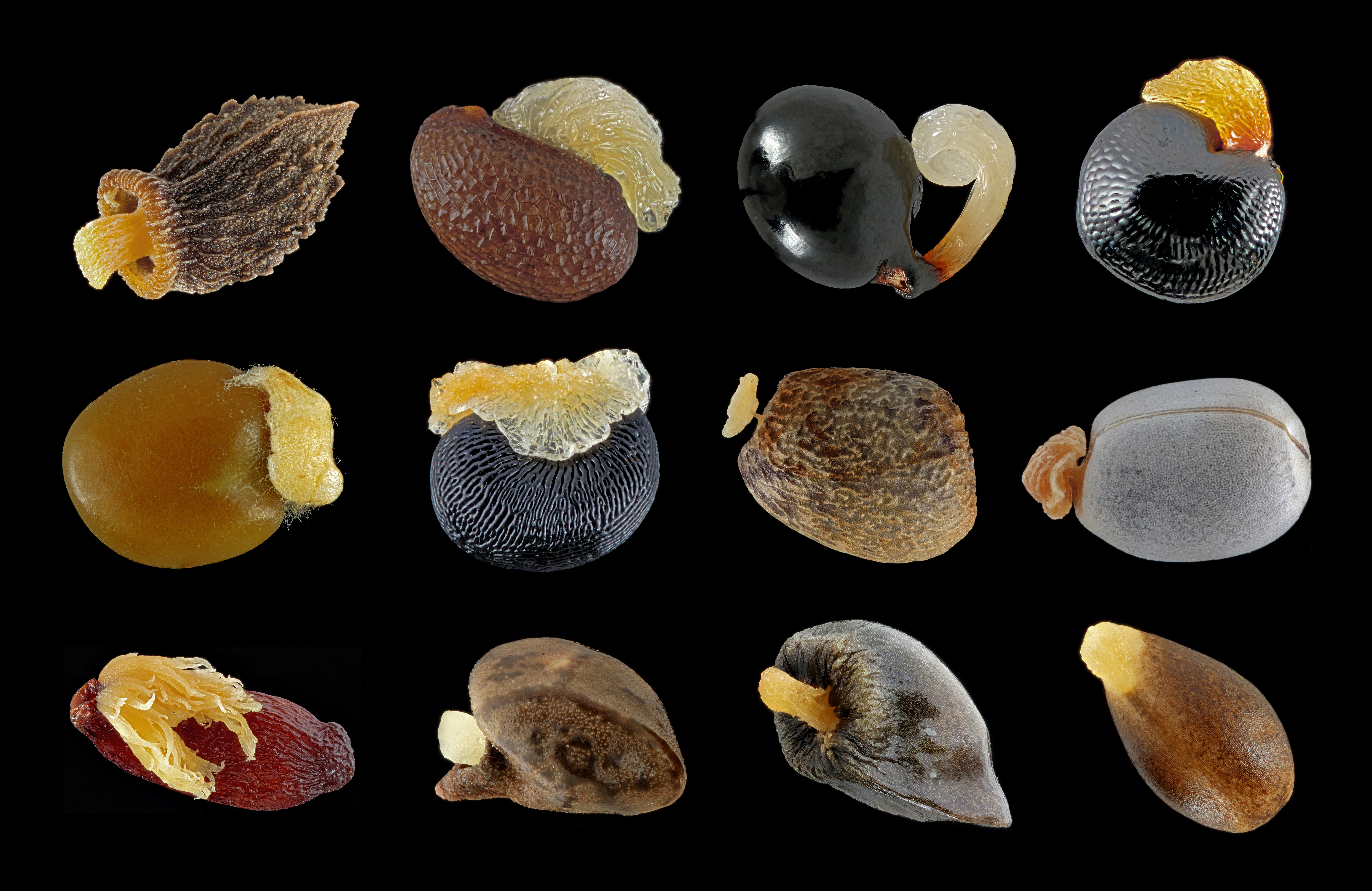 Compilation of seeds with elaiosomes. These seeds are dispersed by ants, known as myrmecochory. Starting from top left: Borago officinalis · Chelidonium majus · Corydalis cava · Corydalis sempervirens Cytisus scoparius · Dicentra torulosa · Euphorbia lathyris · Euphorbia cyparissias Jeffersonia diphylla · Pentaglottis sempervirens · Symphytum officinale · Viola elatior